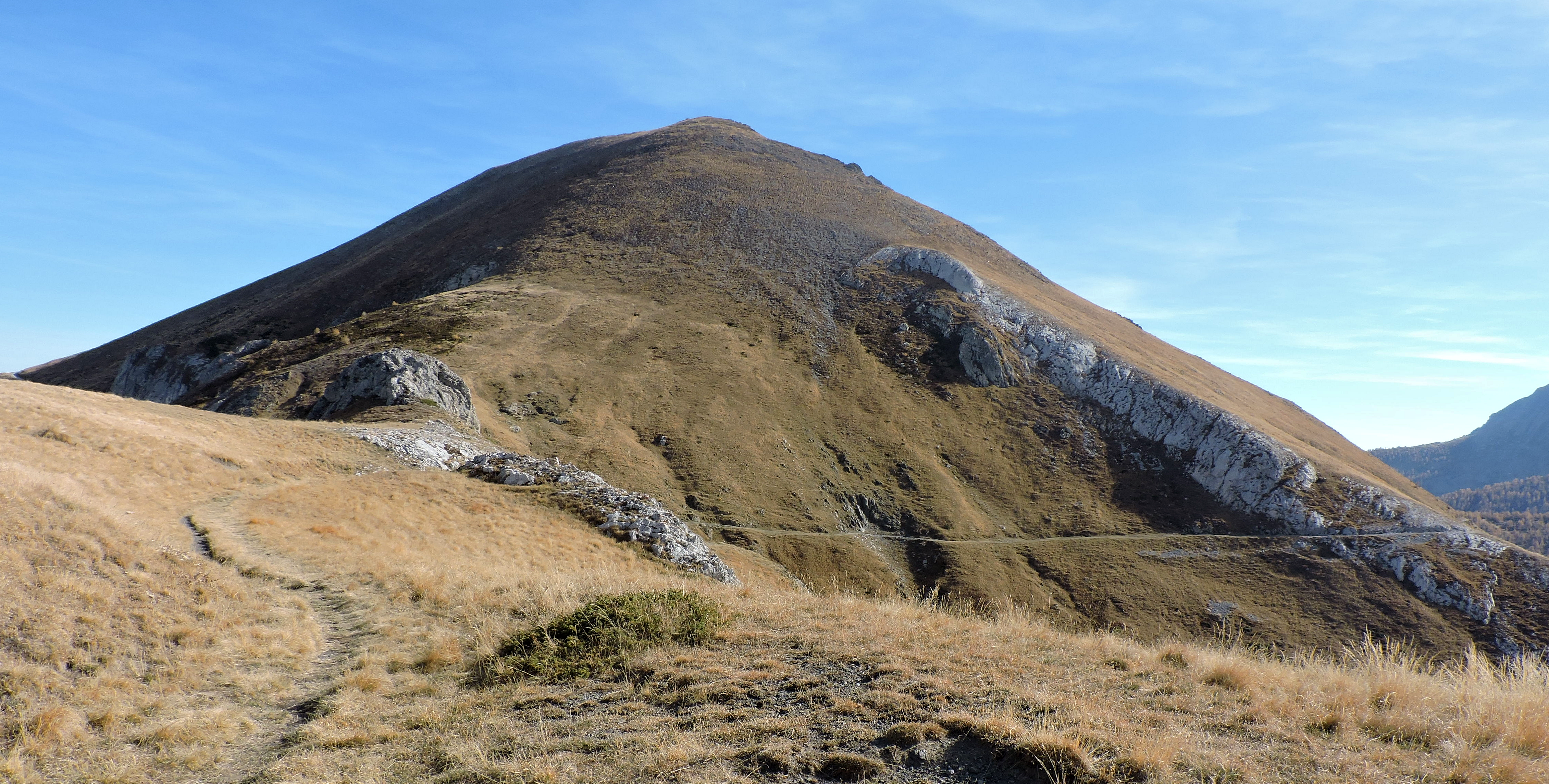 Cima di Pertegà (Ligurian Alps): northern slopes